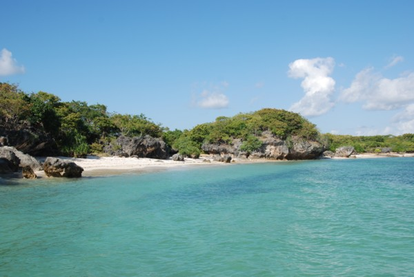 Nusa Manuk island, East Nusa Tenggara province, Indonesia. Original description: Photo of the beach in the Nth West Corner of Nusa Manuk of the Sth West Coast of Rote.